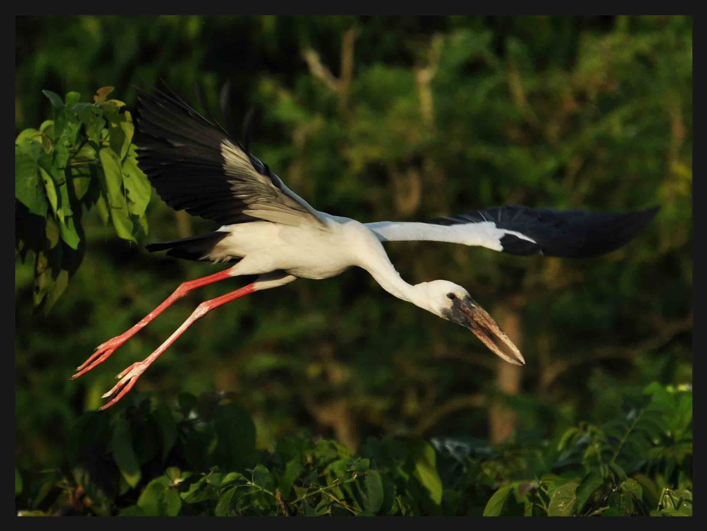 At Raiganj Wildlife Sanctuary, The birds are now (June last Week) busy in nesting